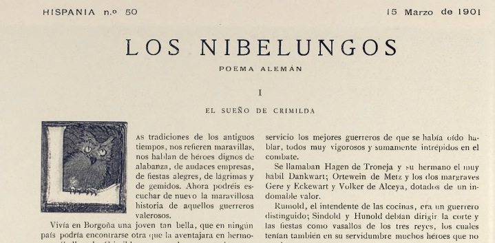 Escrito que aparece en la revista nº50 de Hispania